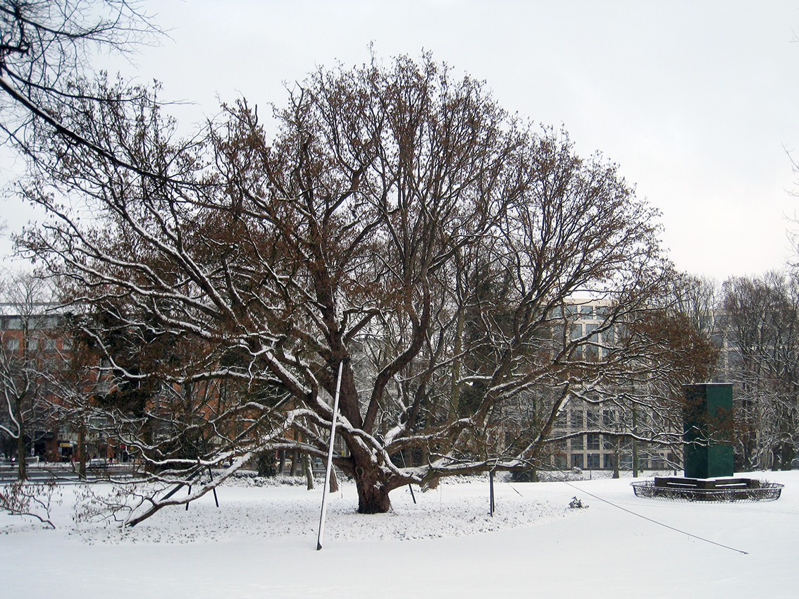 The 200 years old Baum-Hasel am Herdentor (“corylus colurna at the Herdentor”) in the Wallanlagen park in Bremen, Germany. On the right hand next to it the Steinhäuser-Vase, through winter protected in a wodden box.